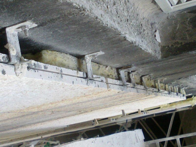 stone cladding in the dry fixing method